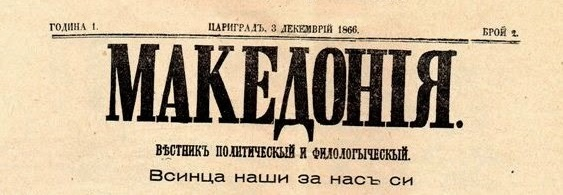 Makedonia Newspaper 1866-12-03 Issue 1